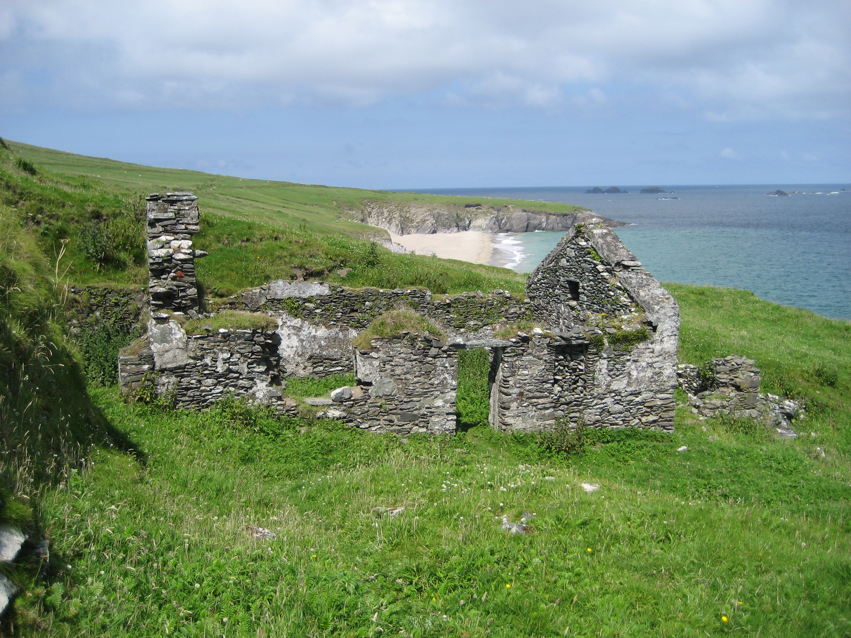 The Great Blasket Island, Co. Kerry, Ireland.